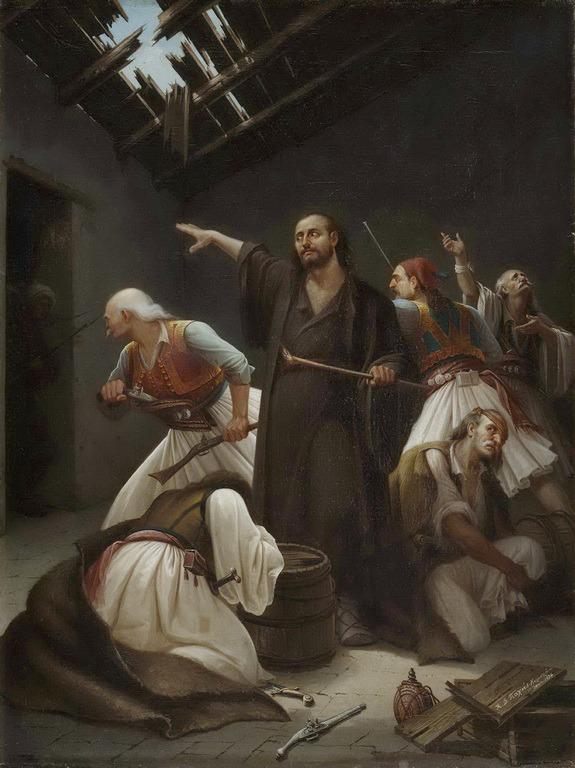 Sacrifice the monk Samuel 1803